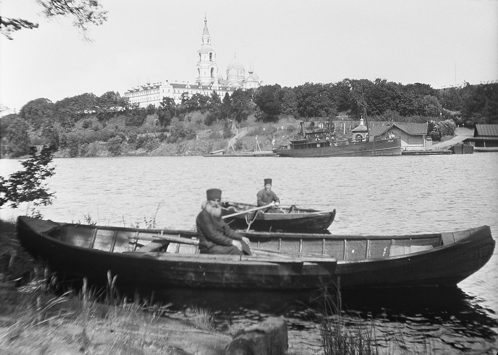 Monks in rowboats at Lake Ladoga. In the background is the Valaam Island with the Russian Orthodox monastery. Munkar i roddbåtar på sjön Ladoga. I bakgrunden är ön Valamo med det rysk-ortodoxa klostret. Location: Lake Ladoga, Valamo, Karelia, Russia (then Finland) Photograph by: Einar Erici Date: 1930s Format: Glass plate negative Kulturmiljöbild: 16001000281024 (Persistent URL) Read more about the photo database (in english)